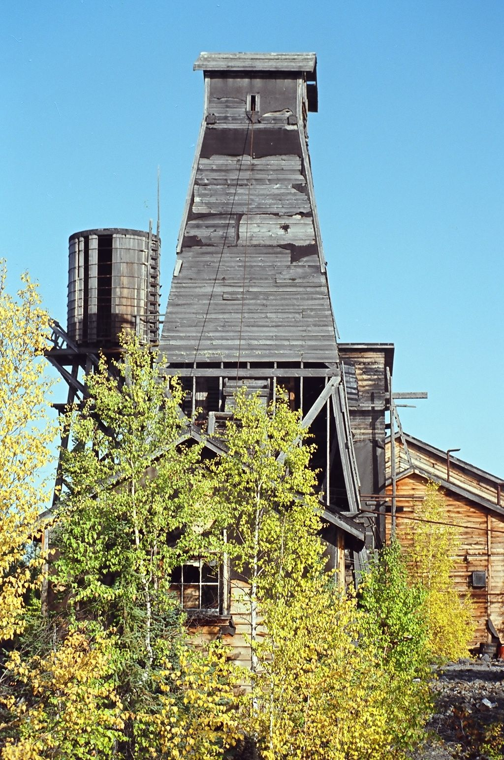 sits atop a 200 foot shaft hand-mined back in the early days of Yellowknife. Smoky Heal was one of the two men who did that and never saw the buildings until 40+ years later looking at my pictures. Few of these small postwar NWT specials are left, most have caught fire or been cleaned up.